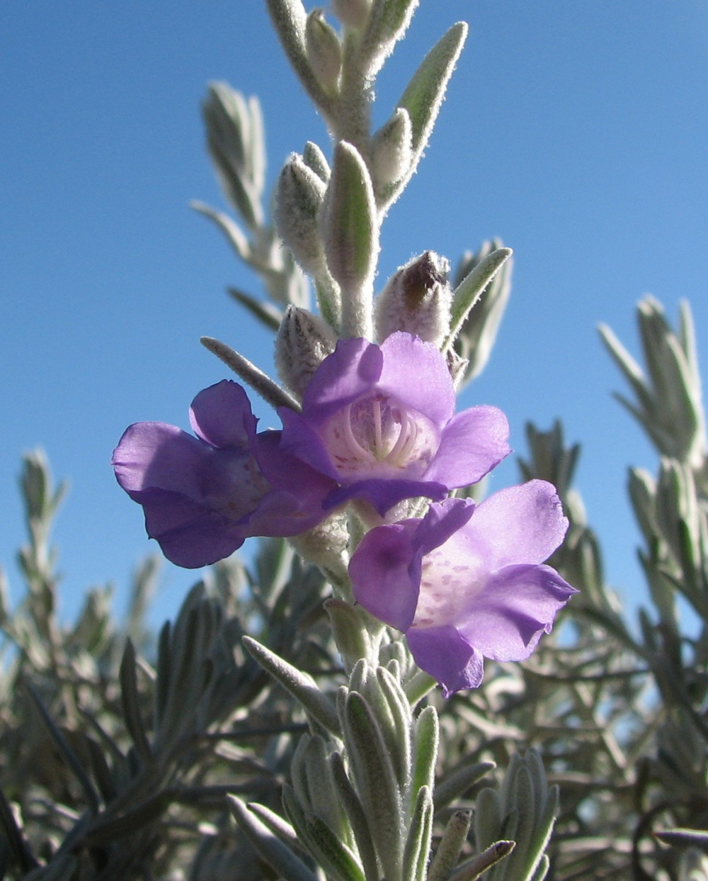 Eremophila nivea, Royal Botanic Gardens Cranbourne, Victoria, Australia